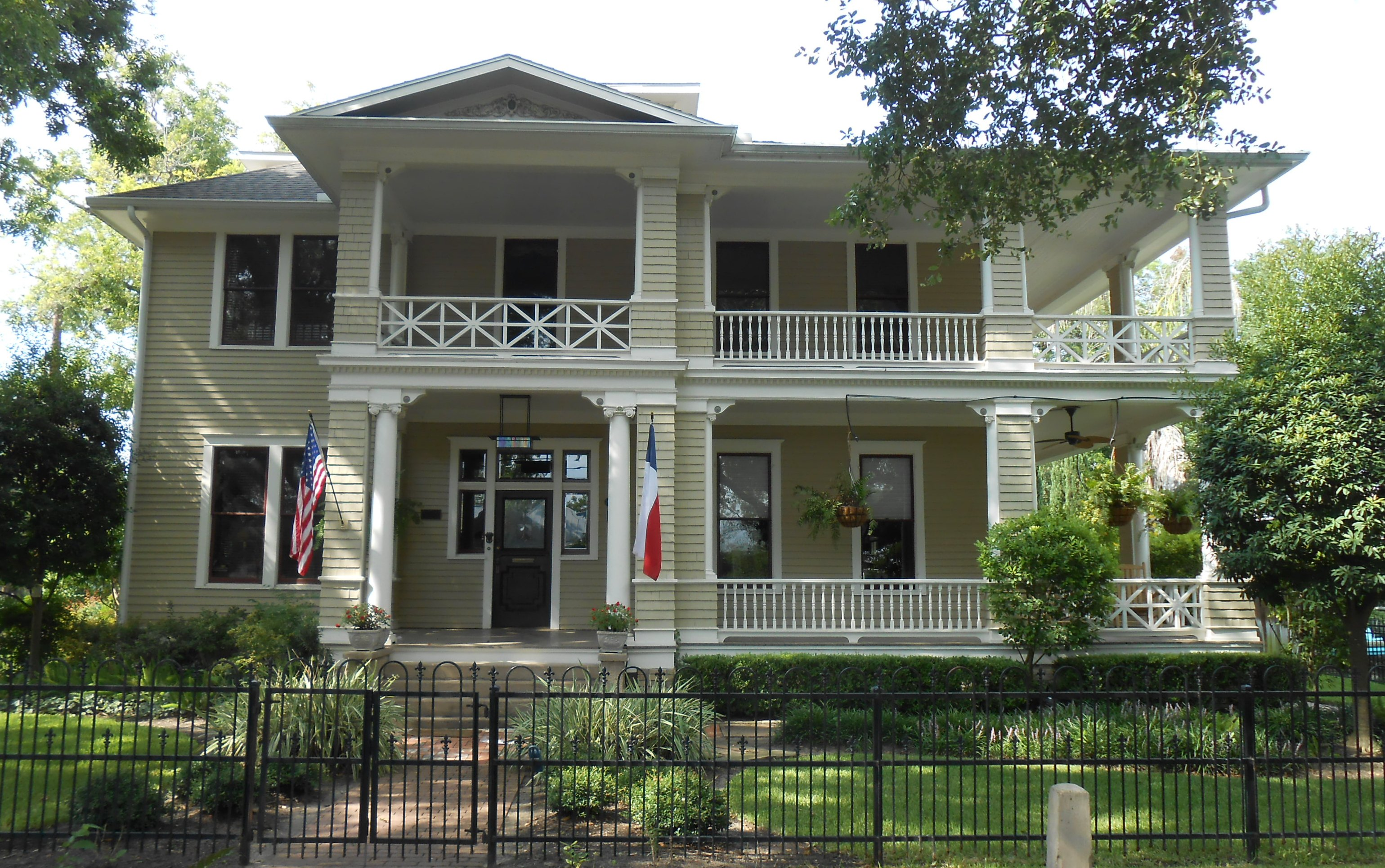 Max Bettin House, 602 E. Santa Rosa Street, Victoria, Texas